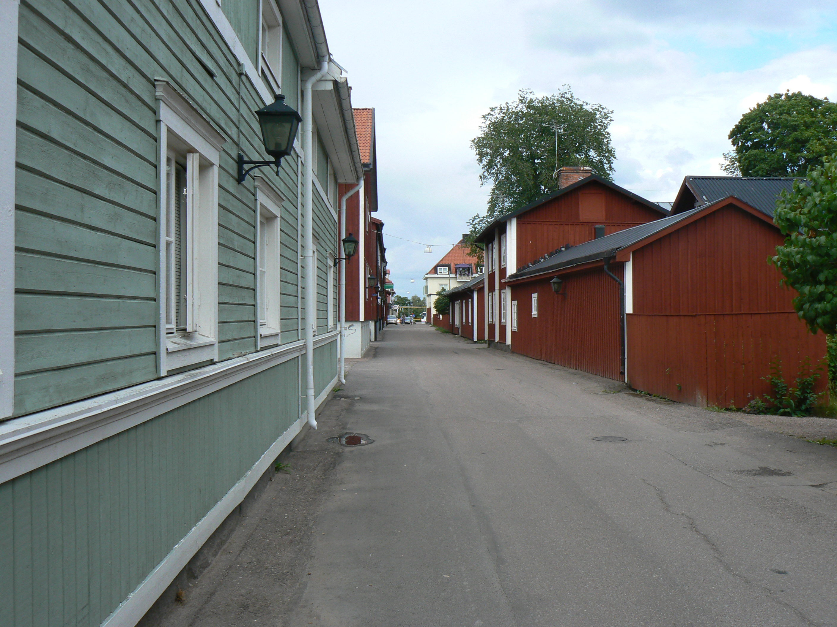 Street scene from Säter town, Dalarna, Sweden.